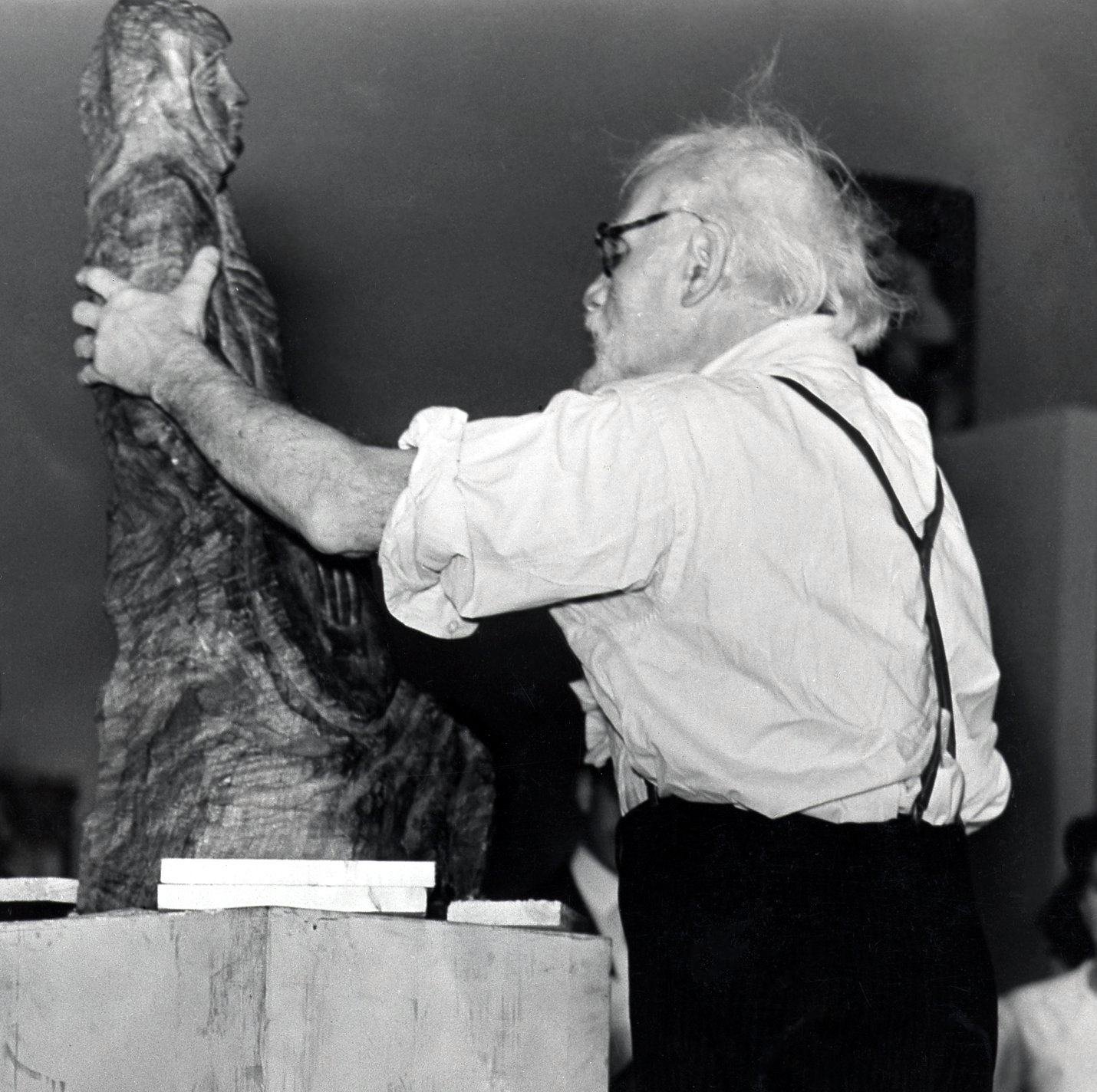 Enrico or Henryk Glicenstein Federal Art Project, Photographic Division collection circa 1920-1965, bulk 1935-1942 - Derivative work